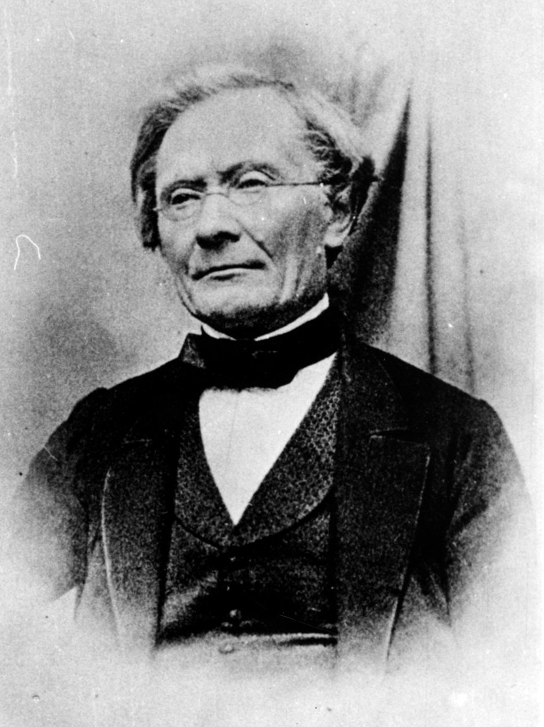 Friedrich Wilhelm Theile, german anatomist, taken about 1850